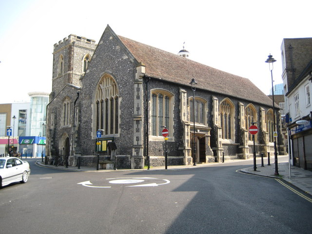 Uxbridge: St Margaret's Church Along with 798869 St Margaret's occupies a triangular site, here at the top end of Windsor Street at its junction with the High Street. The later Market House was built on the High Street side of the church so the church no longer has a High Street frontage. There is a comprehensive history of the church here 798756 can be seen just to the left of the mini-roundabout.